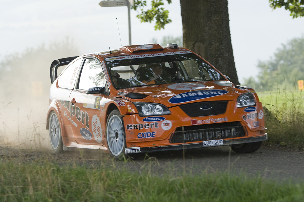 Henning Solberg driving his Ford Focus RS WRC 07 at the 2008 Rallye Deutschland.